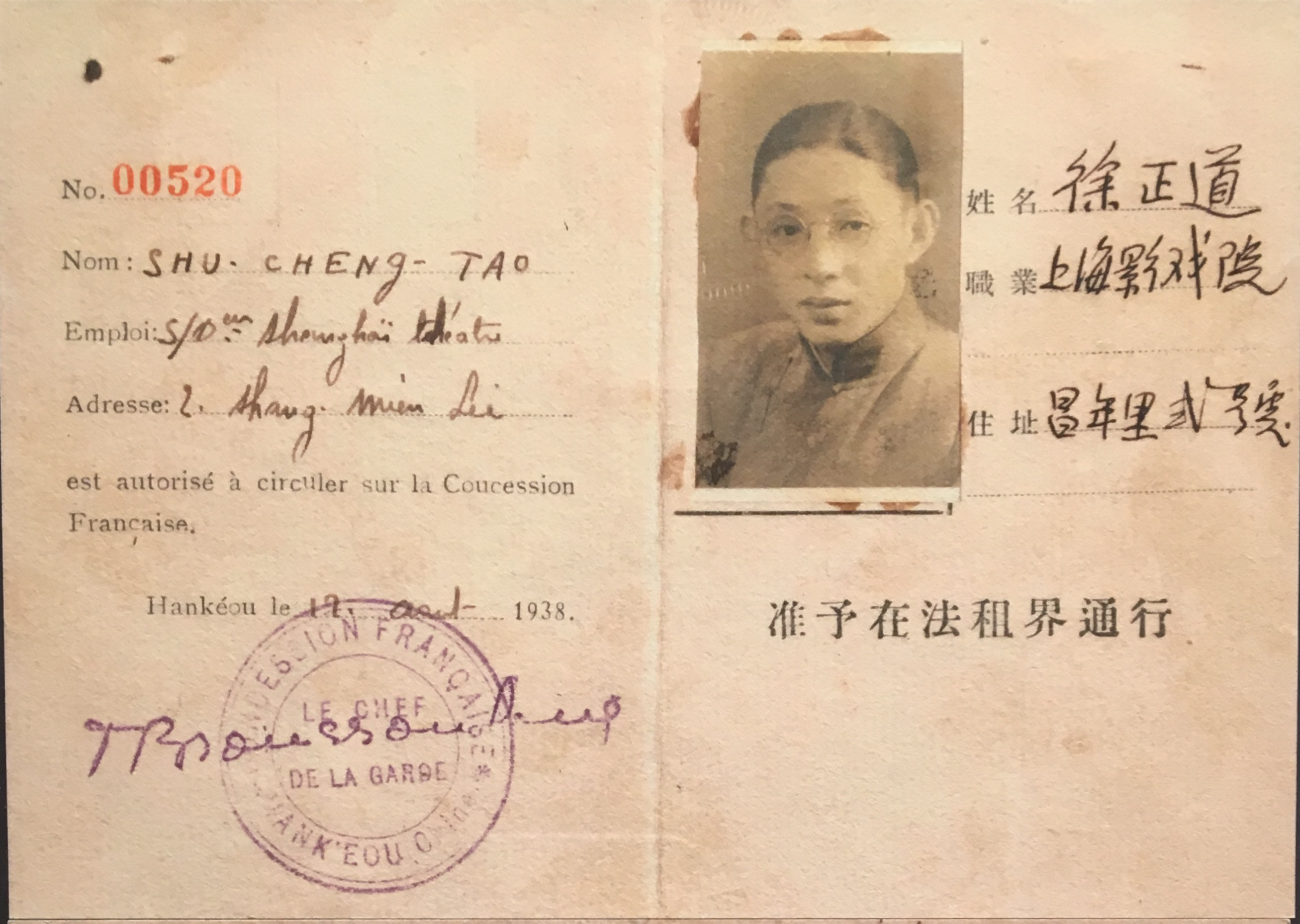 Consession Francaise Hankeou Laissez-Passer Info Page (SHU CHENG-TAO)